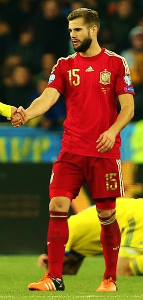 Nacho Fernández